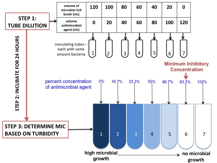 Minimum Inhibitory Concentration: Tube Dilution Assay is performed by constantly increasing the percent concentration of antimicrobial agent to microbial rich broth in a series of tubes. It is used to measure the Minimum Inhibitory Concentration [MIC] of an antimicrobial agent, which is the lowest concentration of antimicrobial agent that will inhibit the growth of microbes. The turbidity of the tubes indicates the amount of microbe growth, with the least turbid, or clear, tubes (tubes 6 and 7) correlating with the absence of microbes. The tube with no antimicrobial agent (tube 1) presents as opaque and most turbid because the microbes are able to flourish. As antimicrobial concentration increases, the turbidity decreases until the MIC is reached and microbes can no longer survive. Antimicrobials with low MICs are more effective than those with high MICs, as only a low dosage is necessary to eradicate microbes.